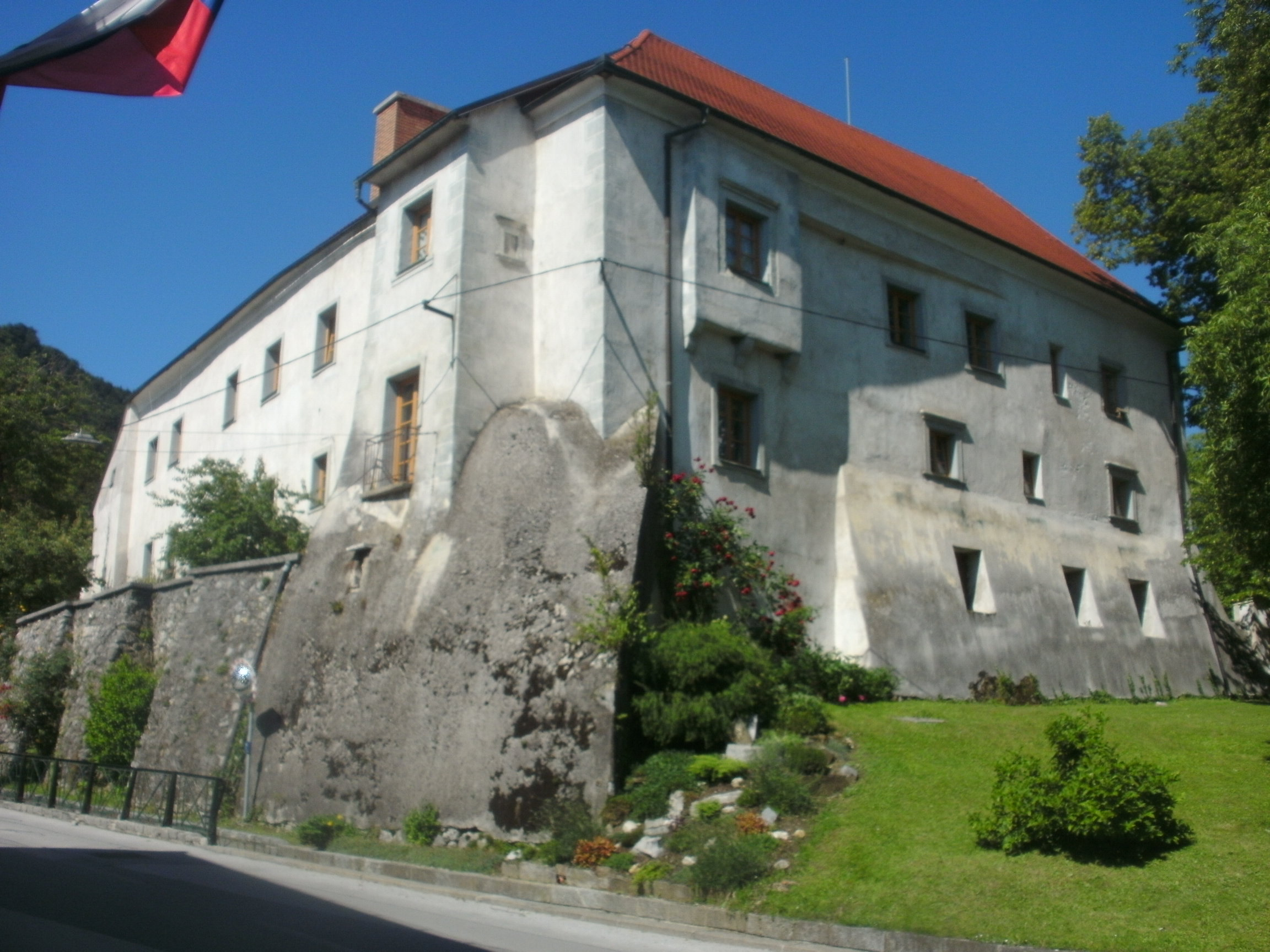 Farof Vicarage, Slovenske Konjice, Slovenia This media shows a cultural heritage object of Slovenia with the EŠD number: 10232